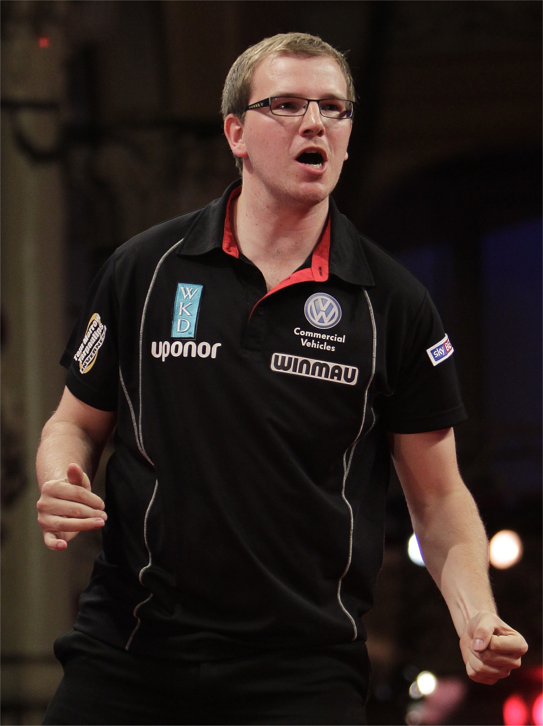 Mark Webster, the Welsh darts player born 12 August 1983.